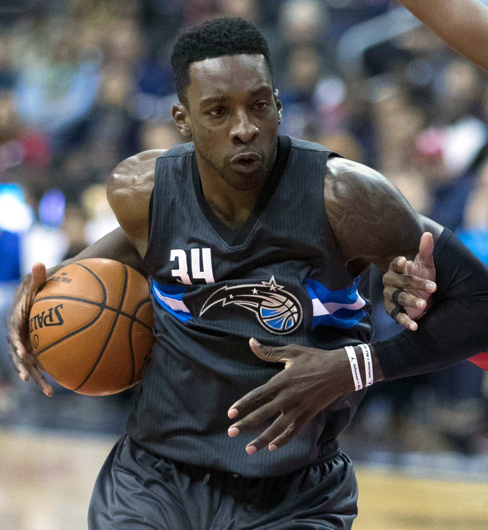 Jeff Green, Magic at Wizards 3/5/17